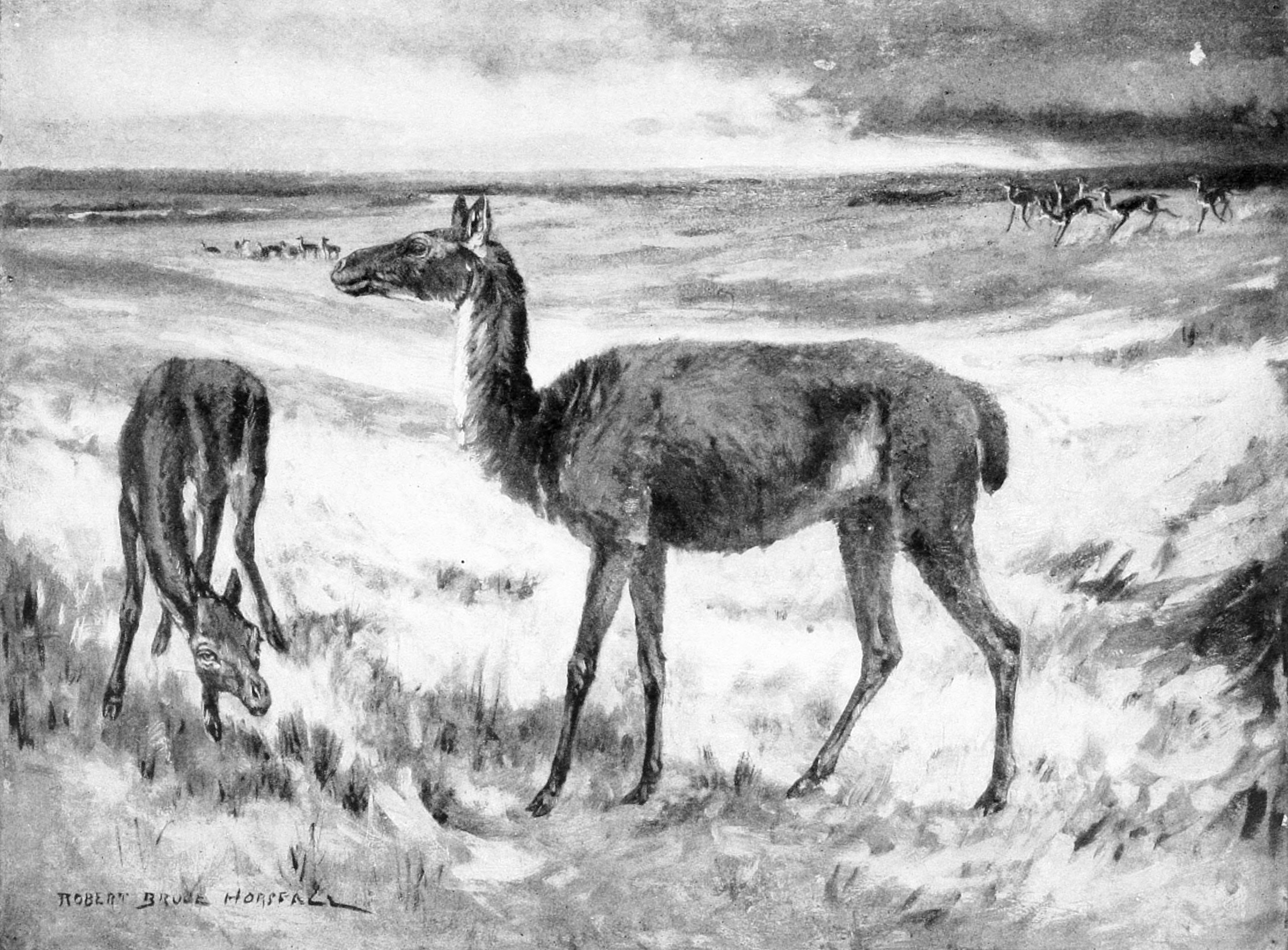 Poebrotherium labratum